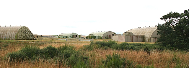 RAF Lossiemouth. It's quite difficult to get at this square, but the corner of the square just clips the corner of the garden of a house outside the RAF base. I asked and received permission to take a photograph from the garden, and the GPS told me that I was just in square. The buildings are typical military structures, and lots more like them can be seen from public roads all round the base.